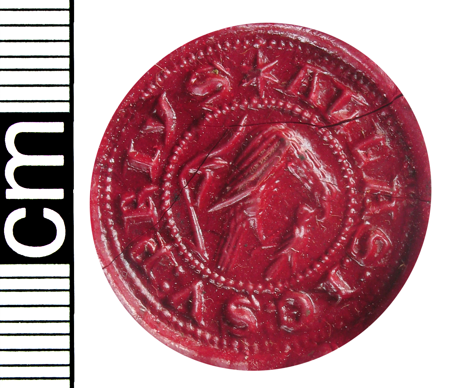 A cast copper-alloy seal matrix of medieval date (14th century AD). The matrix is of circular form with a low, central, longitudinal ridge on the reverse that terminates in a semi-circular suspension loop whose perforation is 3.0mm in diameter. The die features a central motif surrounded by a impersonal legend; both are surrounded by beaded borders. The legend reads '* ALLAS : IE : SV : PRIYS', (translated): 'Alas, I am caught/taken', a common legend (see for example Harvey and McGuiness 1996, 89; ref. 82). The central device depicts a bird taking a smaller bird with a talon to the back, craning its neck to envelope the head and attack it with its beak. The birds' feathers are defined through fine incisions, with intermittent lines denoting the shorter neck and body feathers. Behind the larger bird is a sprig of foliage with three leaves, the outer of which splay outwards. This matrix has an even dark-grey patina and survives well.